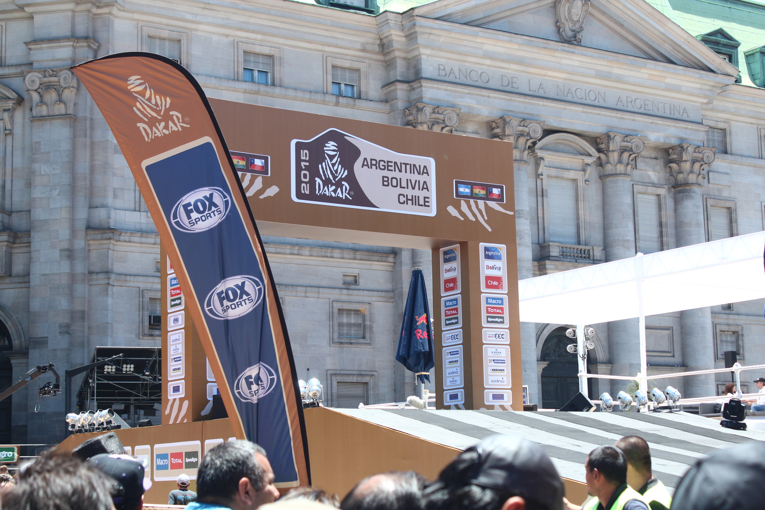 Dakar Rally 2015 start, in Buenos Aires, Argentina.